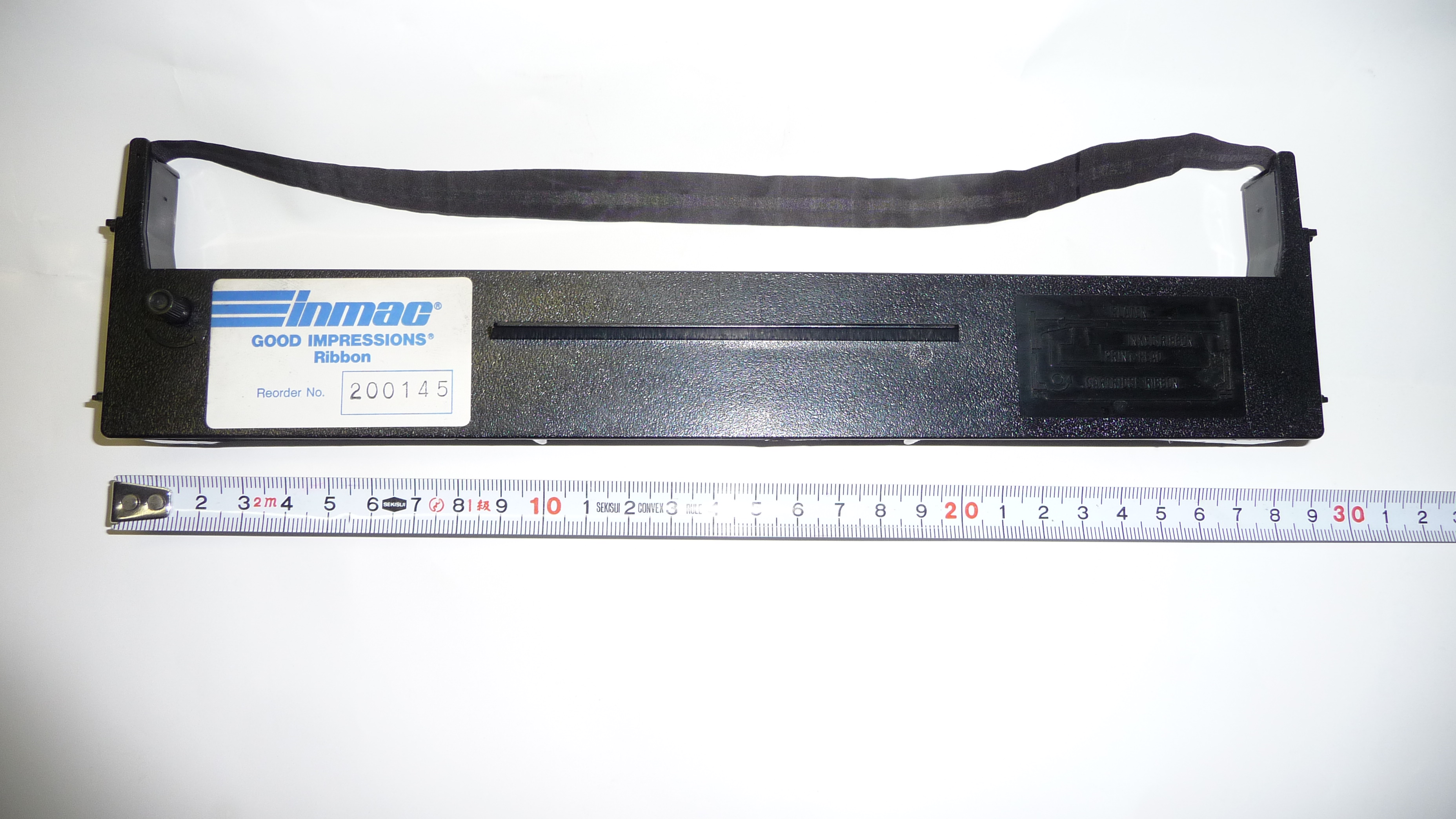 Inmac ink ribbon cartridge with black ink See File:Printer dot matrix EPSON VP-500.jpg